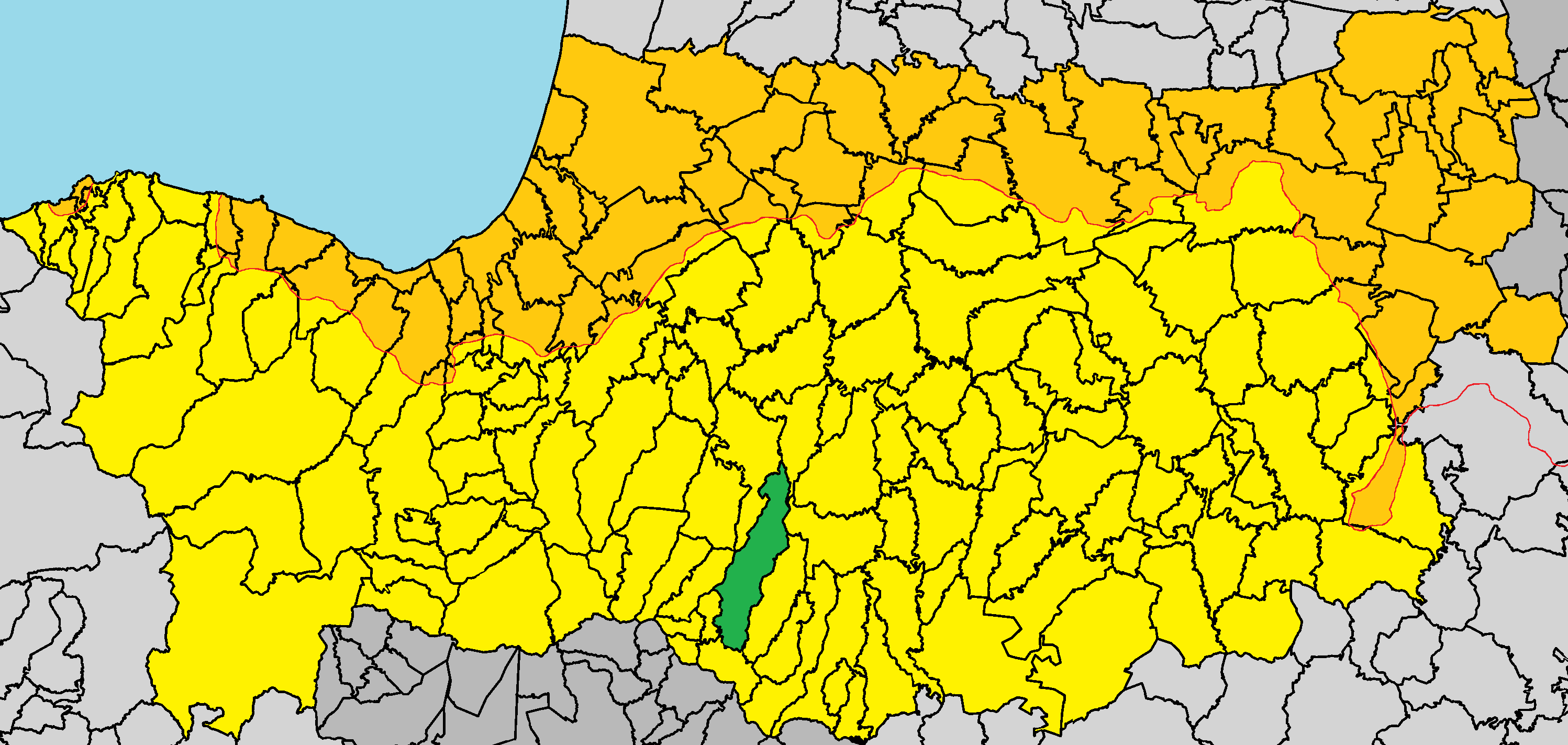 Platanistasa in Nicosia District.